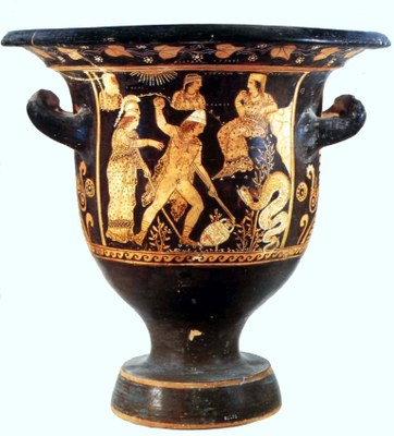 Asteas Krater, Museo Archeologico of Naples